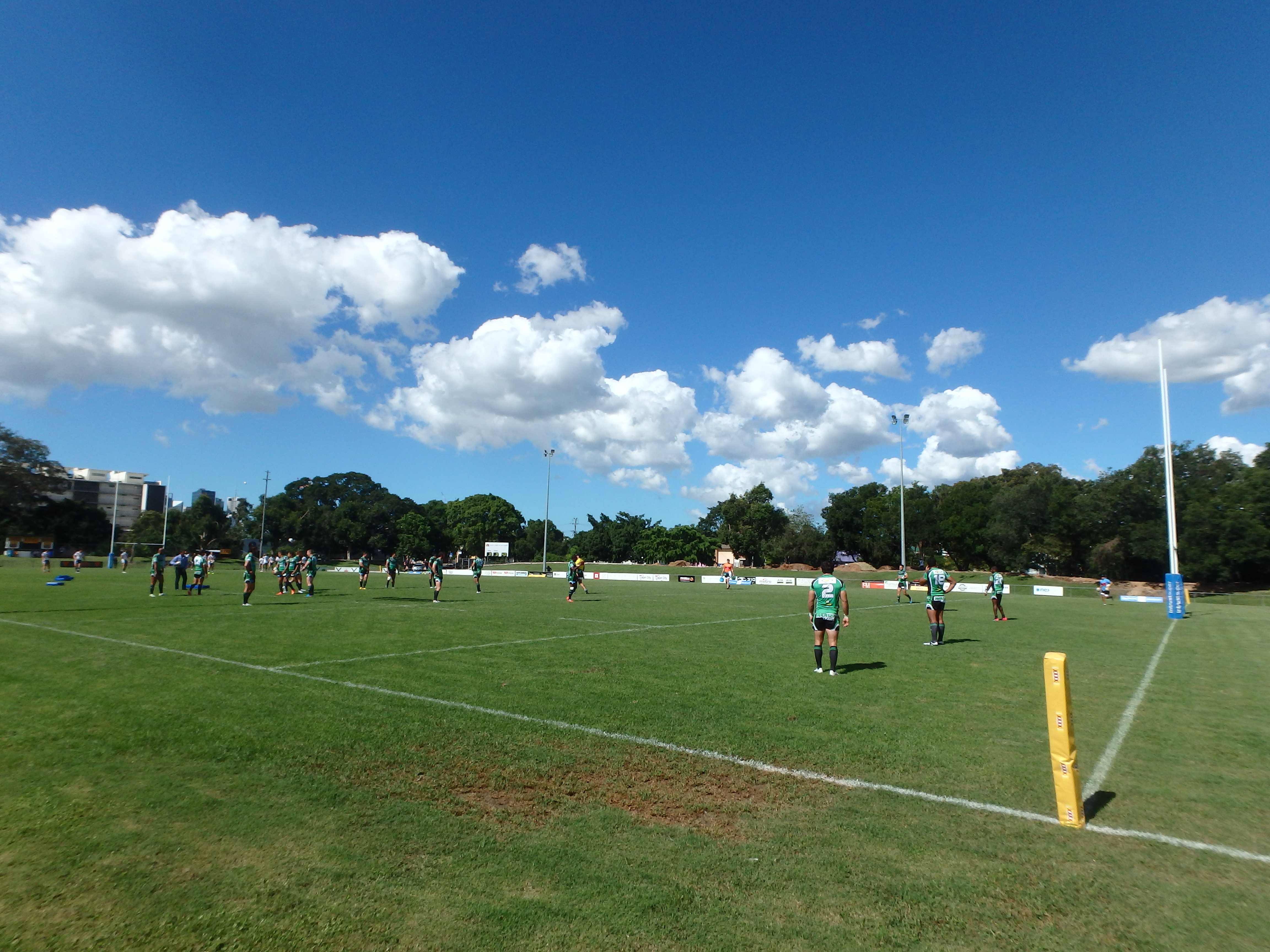 Souths vs Townsville 12 April 2015, Intrust Super Cup, Davies Park